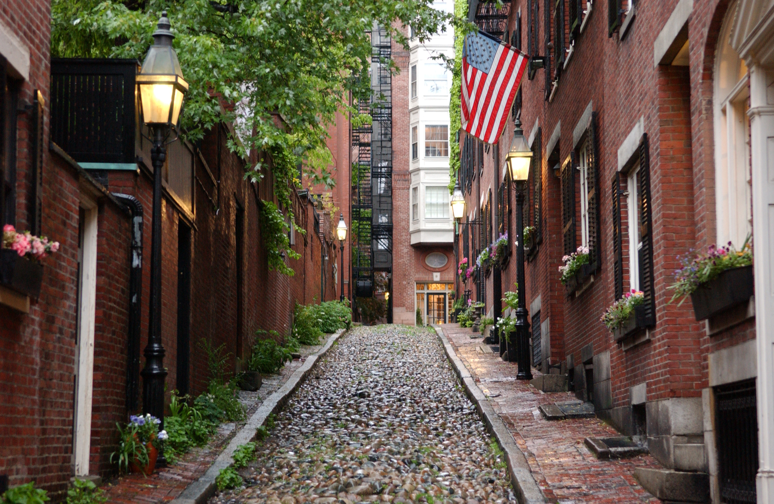 Boston, Beacon Hill